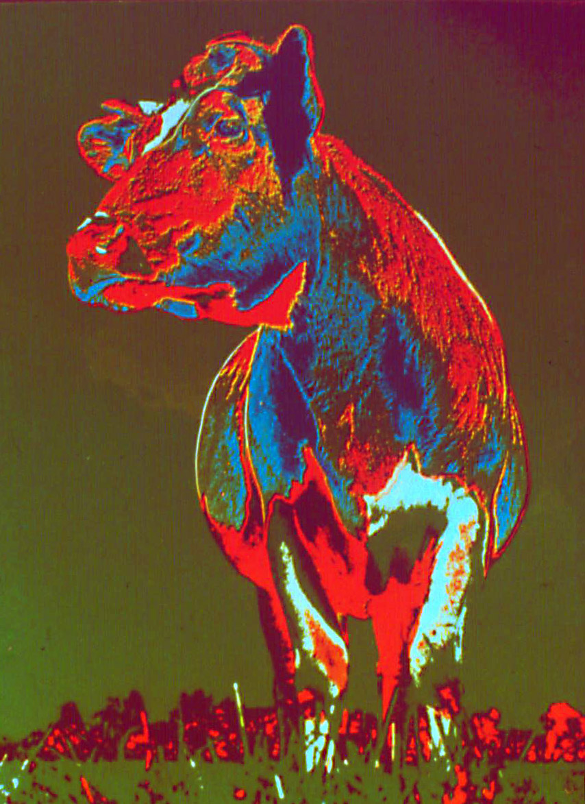 Equidensities serie produced on Agfacontour Professional sheet film. Each equidenity then copied on lith film and chromogenic developed. All sheets in register enlarged on color paper.